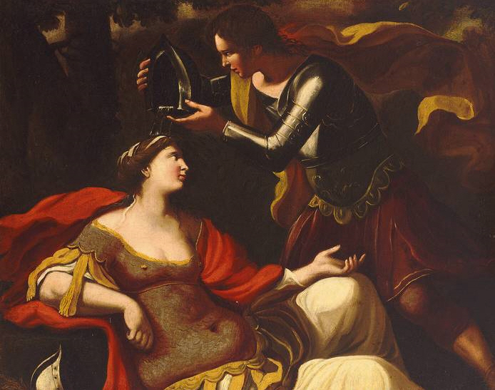 Tancred baptizes the dying Clorinda; Oil on canvas, 59,5 x 75 cm